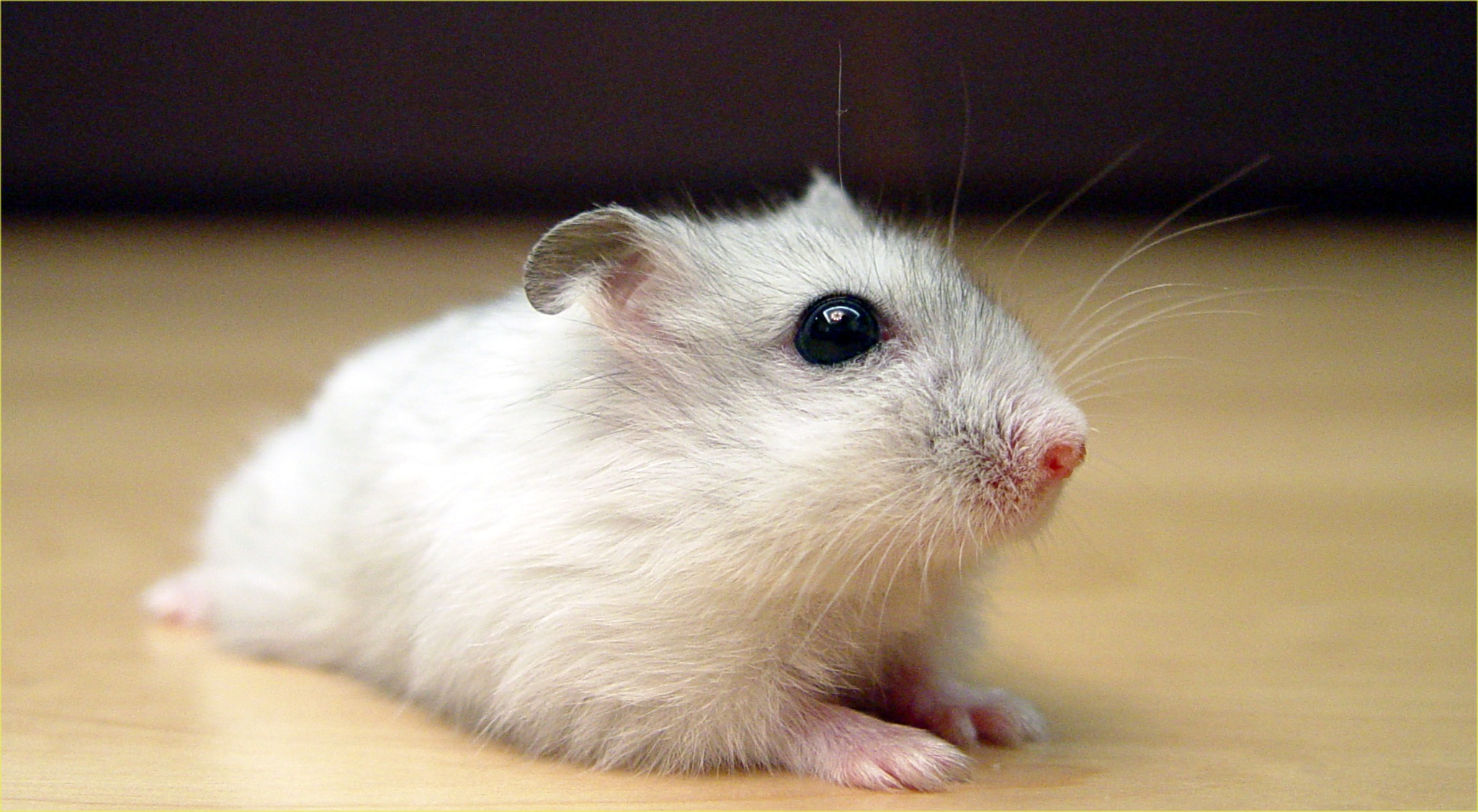 Front of a Pearl Winter White Russian Dwarf Hamster.